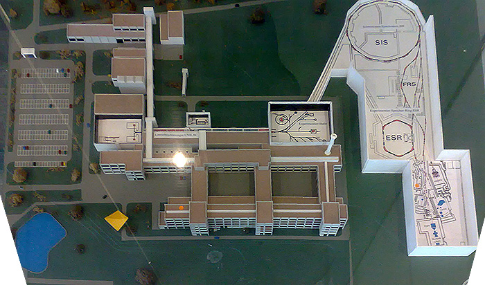 Model of GSI Helmholtzzentrum für Schwerionenforschung